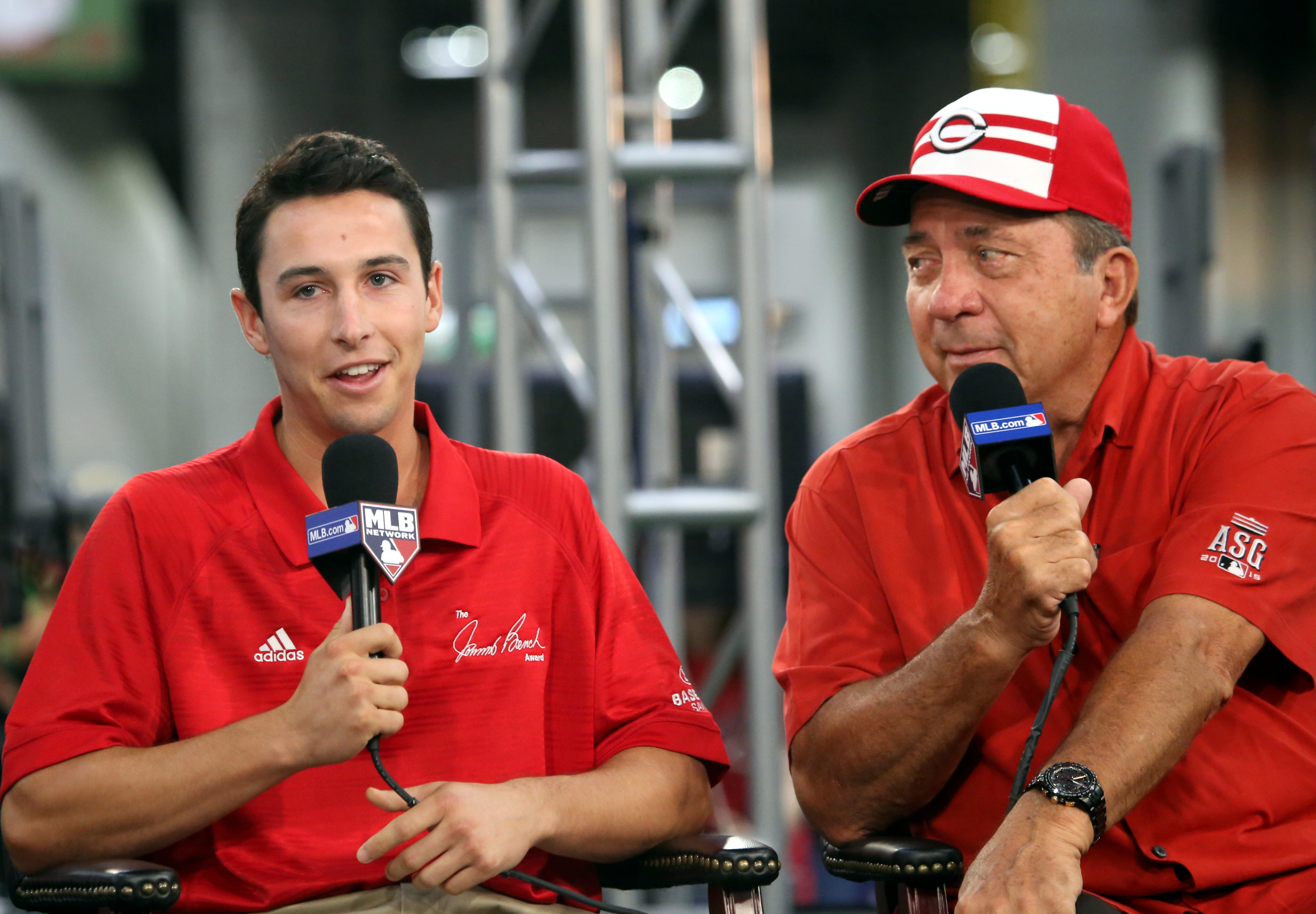 2015 Johnny Bench Award winner Garrett Stubbs and the award's namesake.